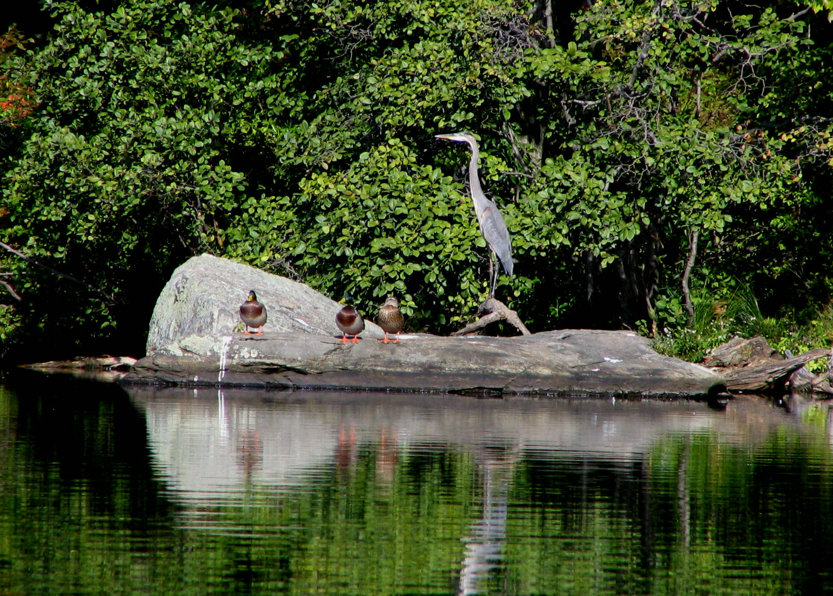 Great Blue Heron and Mallards at Silvermine Lake in Harriman State Park. Taken by User:Mwanner, 4 October, 2005.